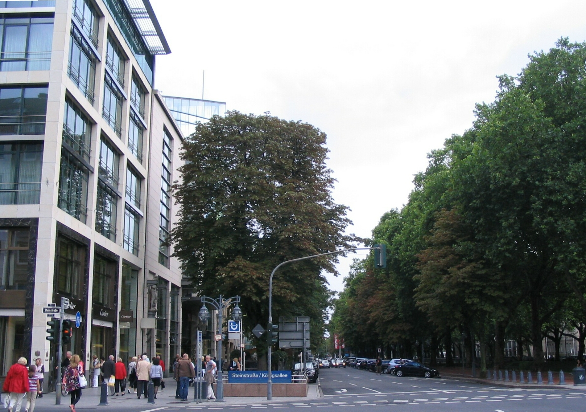 Königsallee in Düsseldorf, Germany